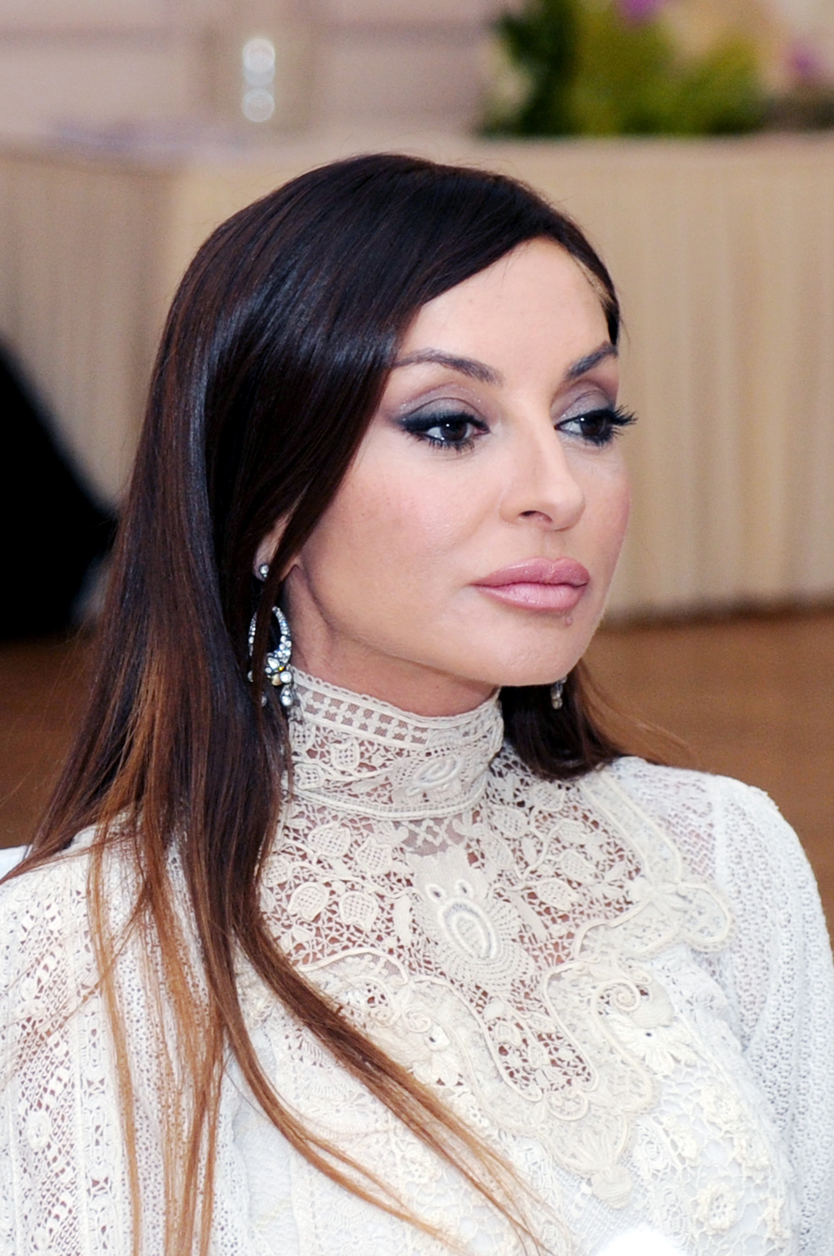 Mehriban Aliyeva - First Lady of Azerbaijan.